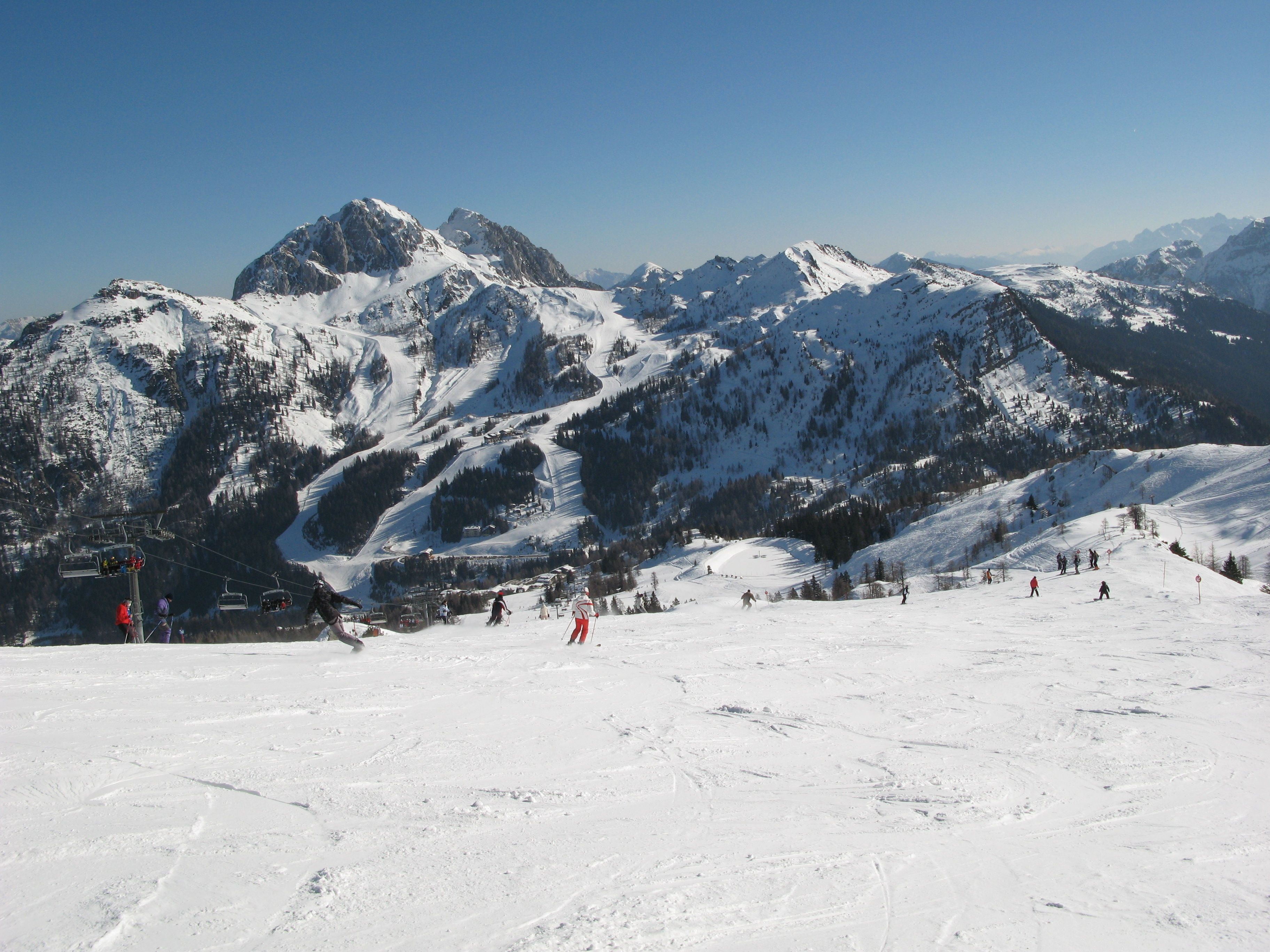 Nassfeld 08. Garnitzenberg 1951m - View from Monte cavallo 2240m ( Rosskofel) Italia